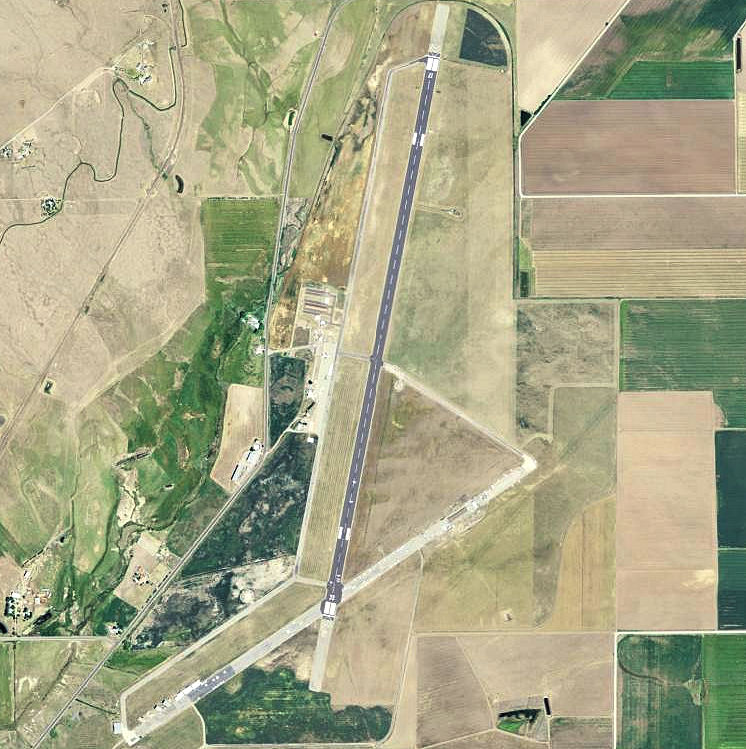 USGS digital orthophoto of Siskiyou County Airport in California